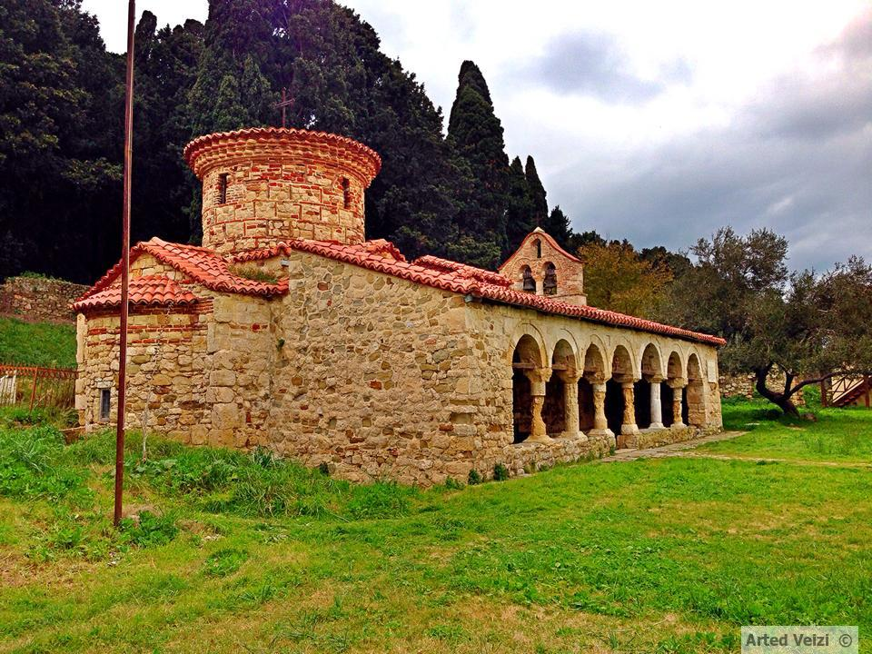 Virgin Mary Monastery